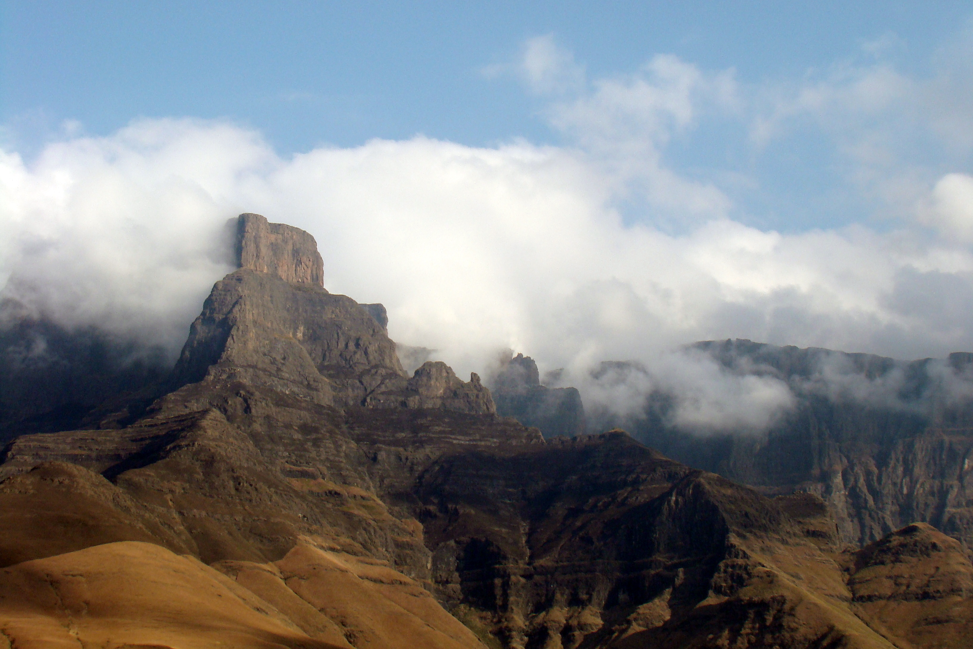 Ukalamba Drakensberge, South Africa